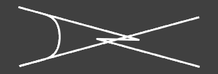 Modified from the original, sourced from the official Vekoma website to add a background colour for viewing.